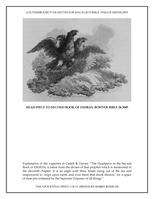 Head-piece to second book of Esdras, vignette with three headed eagle flying above a wave; letterpress in two columns below and on verso. 1812, published 1815. Inscriptions: Lettered below image with production detail: "J Landseer fecit/Crouch end 1812", "P J de Loutherbourg delt", and publication line: "Published 3 July 1815 Mess Cadell & Davies". Print made by John Landseer. Dimensions: height: 490 millimetres (sheet); width: 393 millimetres (sheet).